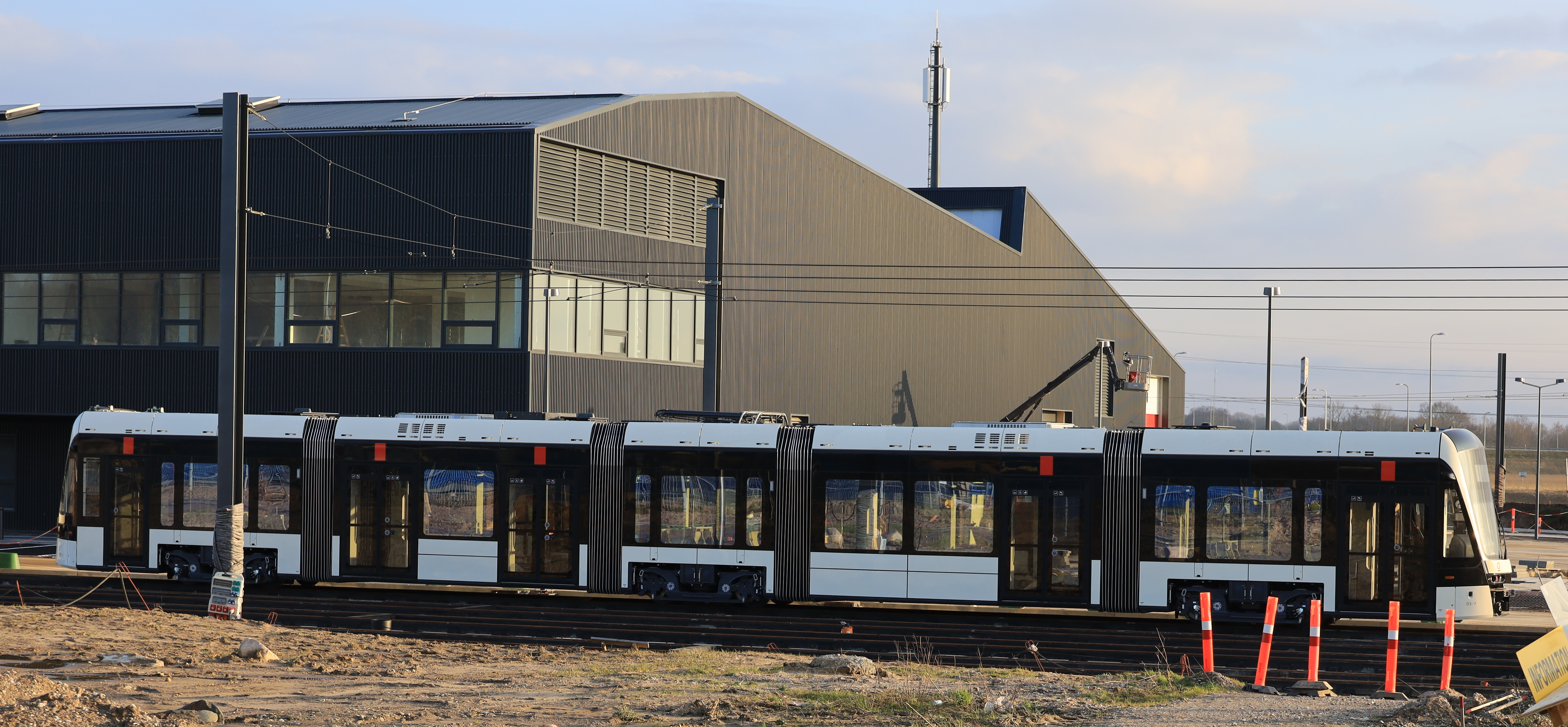 Odense Letbane, a Stadler Variobahn trainset at the control centre